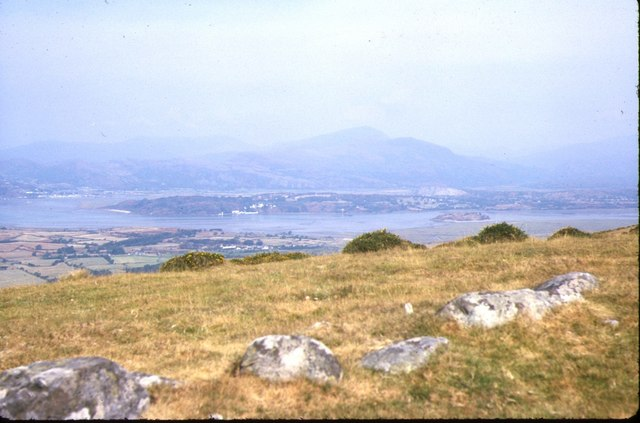 View from Moel Goedog. View NE towards Minffordd SH5938 and Mynydd Gorllwyn SH5742